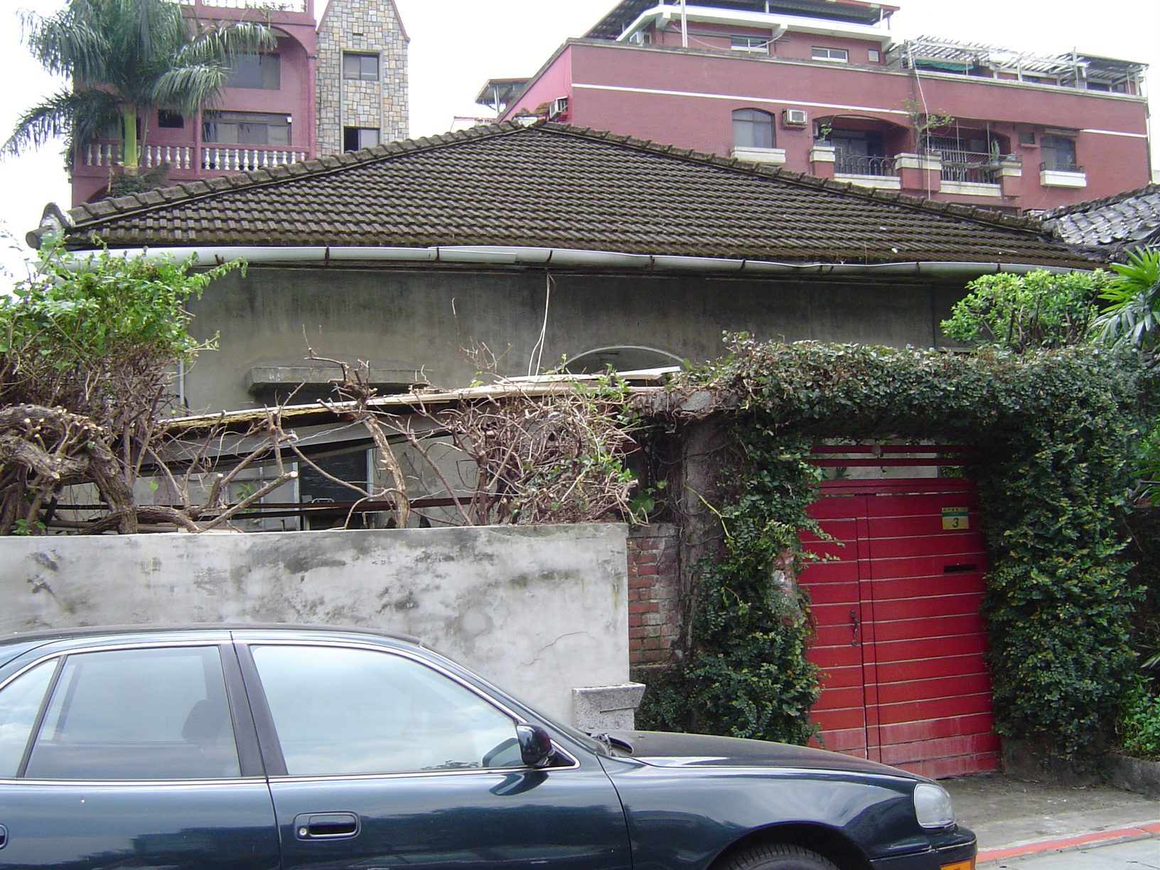 Japan house built in 1932~1945